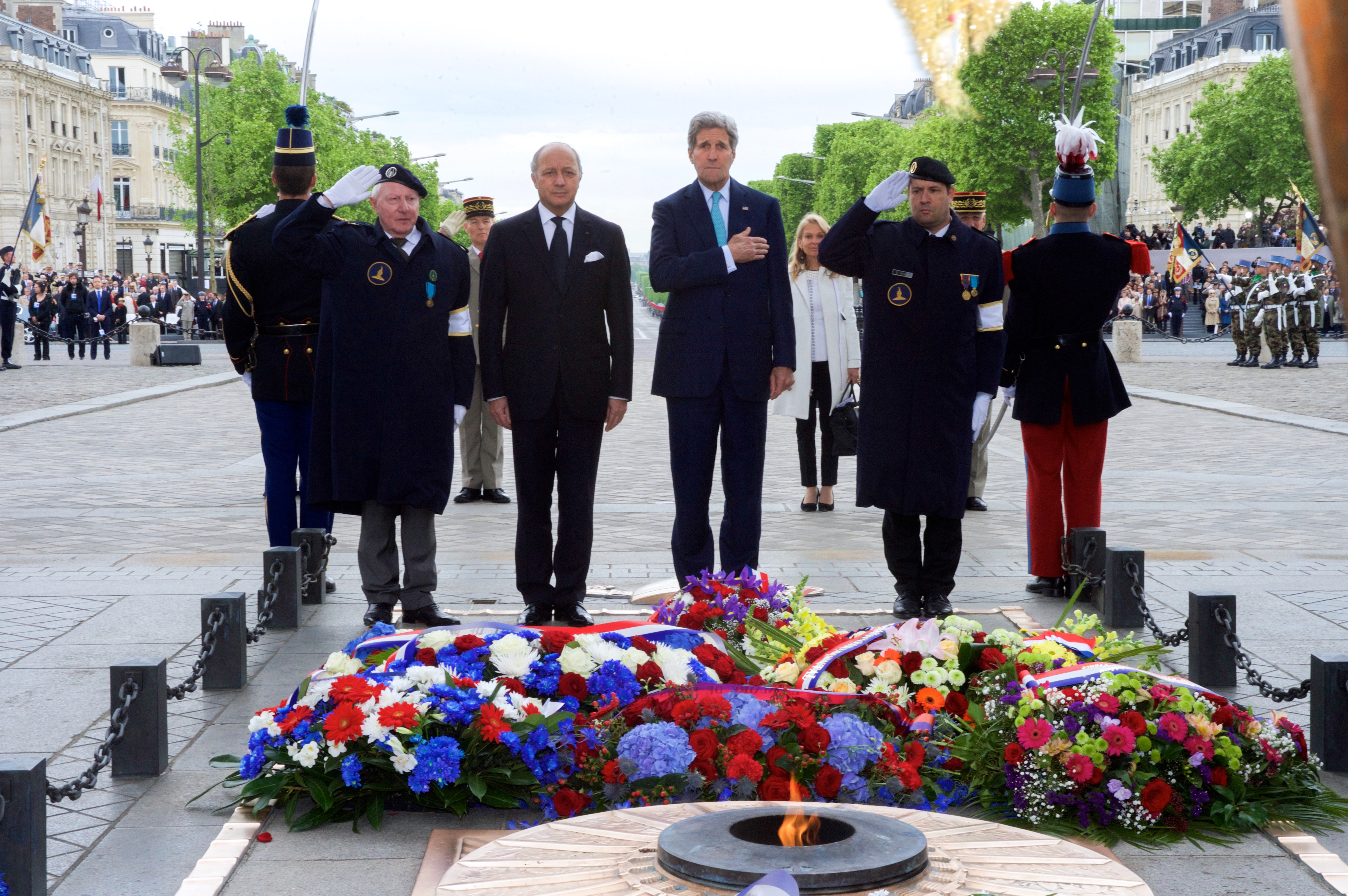 U.S. Secretary of State John Kerry, French Foreign Minister Laurent Fabius, and U.S. Ambassador to France Jane Hartley pause after a wreath-laying ceremony that took place as part of a commemoration of the seventieth anniversary of VE Day in Paris, France, on May 8, 2015. [State Department photo/ Public Domain]